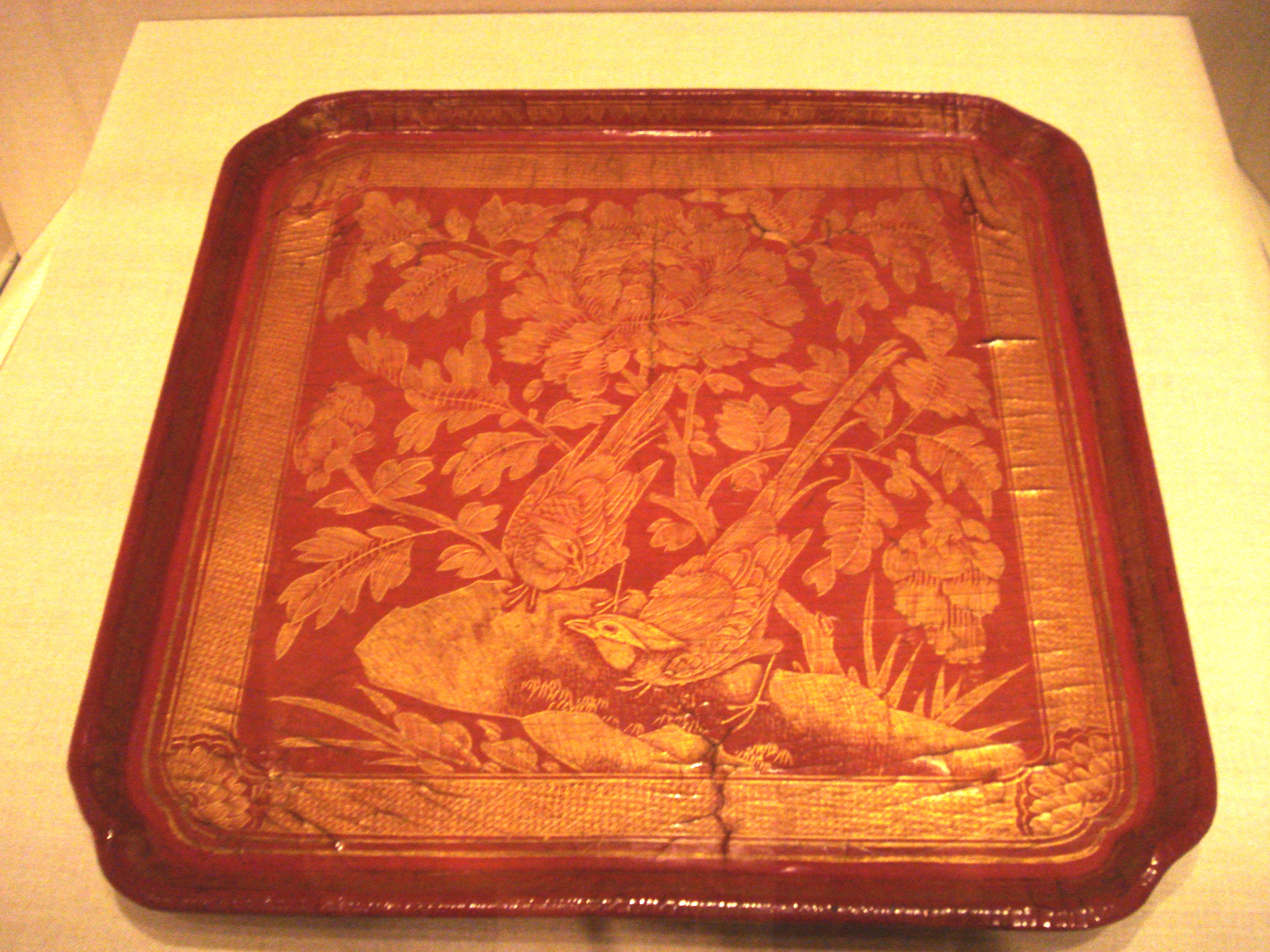 A Chinese red lacquer tray over wood with engraved golden foil, from the Song Dynasty (960–1279 AD), dated 12th to early 13th century. As the Freer and Sackler Galleries museum description states, in China the gold-engraving technique is called qiangjin. The museum caption states that this method has existed since roughly the 3rd century AD, although it was not until the Song Dynasty era that gold engravings were found on luxury lacquerwares. After a wooden tray was covered with multiple layers of cinnabar-colored lacquer, fine lines were then incised into the new surface. These incisions were then filled with an adhesive of clear lacquer, followed by the pressing of gold foil into the grooves. The two long-tailed birds and a peony plant depicted in this tray are symbolic of longevity and prosperity in Chinese culture, since the Chinese word for "long life" (shou) sounds similar to the words for long-tailed birds (dai shou). In his book Han Civilization (1982, New Haven: Yale University Press), Wang Zhongshu would firmly disagree with the Freer and Sackler Gallery Museum description about the date of the oldest lacquerware luxury goods using the incising and gold foil technique, which he says was called pingtuo. From an ancient Han Dynasty (202 BC – 220 AD) tomb at Guanghua in Hubei province, archaeologists discovered lacquerwares having "incised tiger, hare, bird, and other animal and cloud-scroll designs were filled in with gold so that they resemble the gold- and silver-inlaid decorations on bronzes...Individual motifs were cut out from thin sheets of gold or silver and attached to the lacquered surface of the vessel, resembling what was later known as pingtuo" (Page 82).